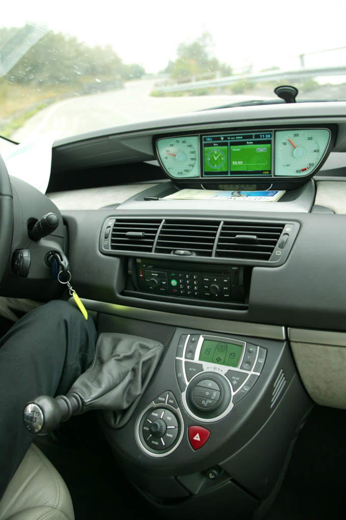 The dashboard of Fiat Ulysse